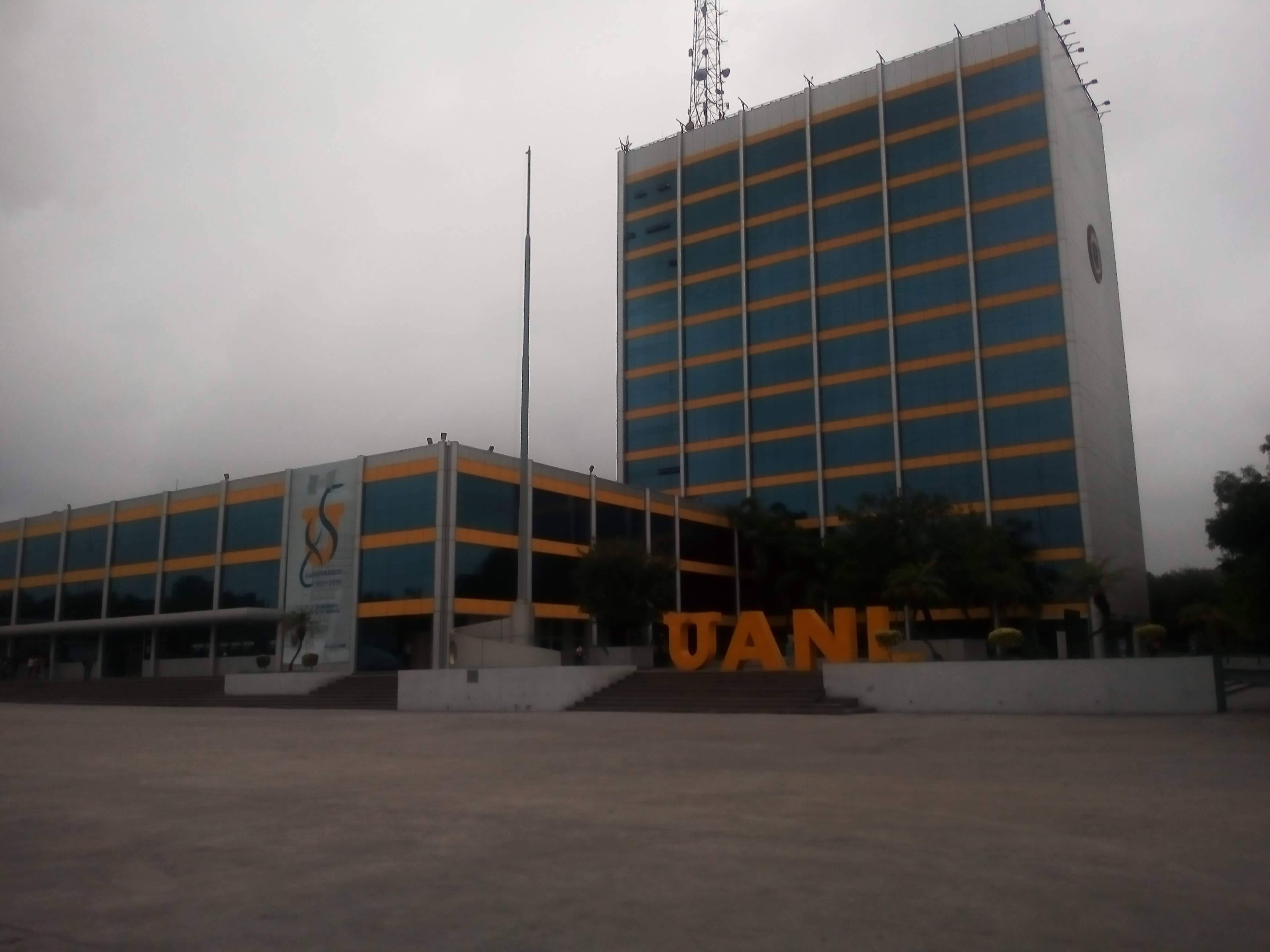 This is a image of the UANL